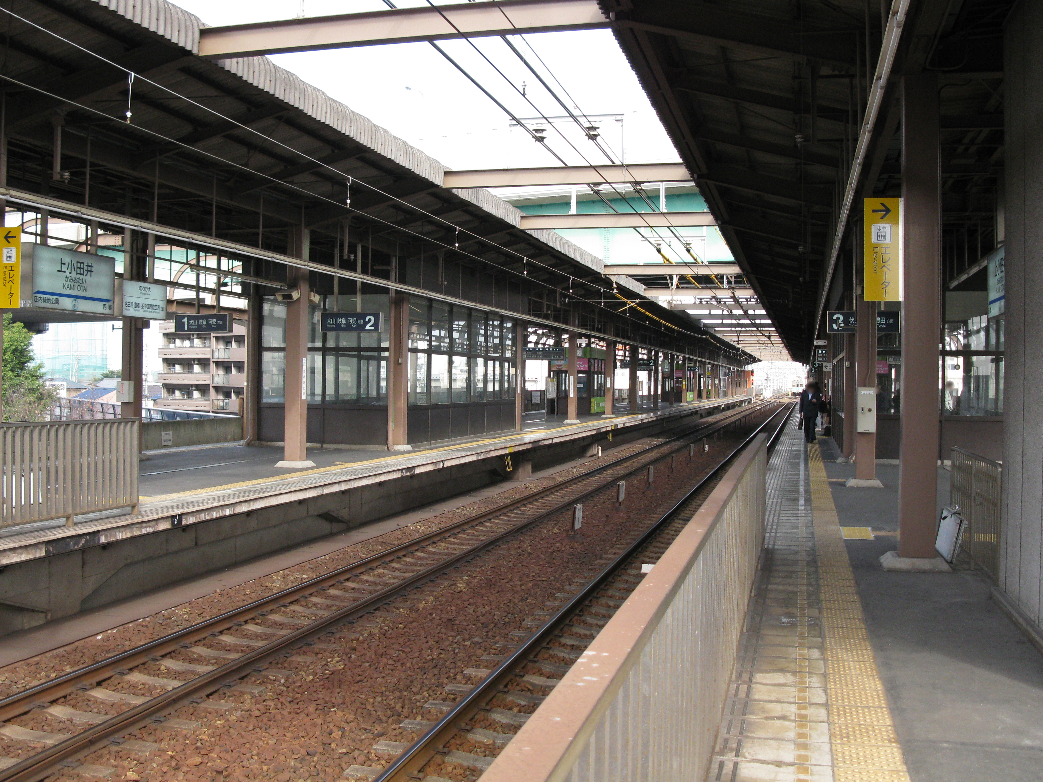 The platforms of Kami-Otai Station(Nagoya Railroad Inuyama Line, Nagoya Municipal Subway Tsurumai Line)